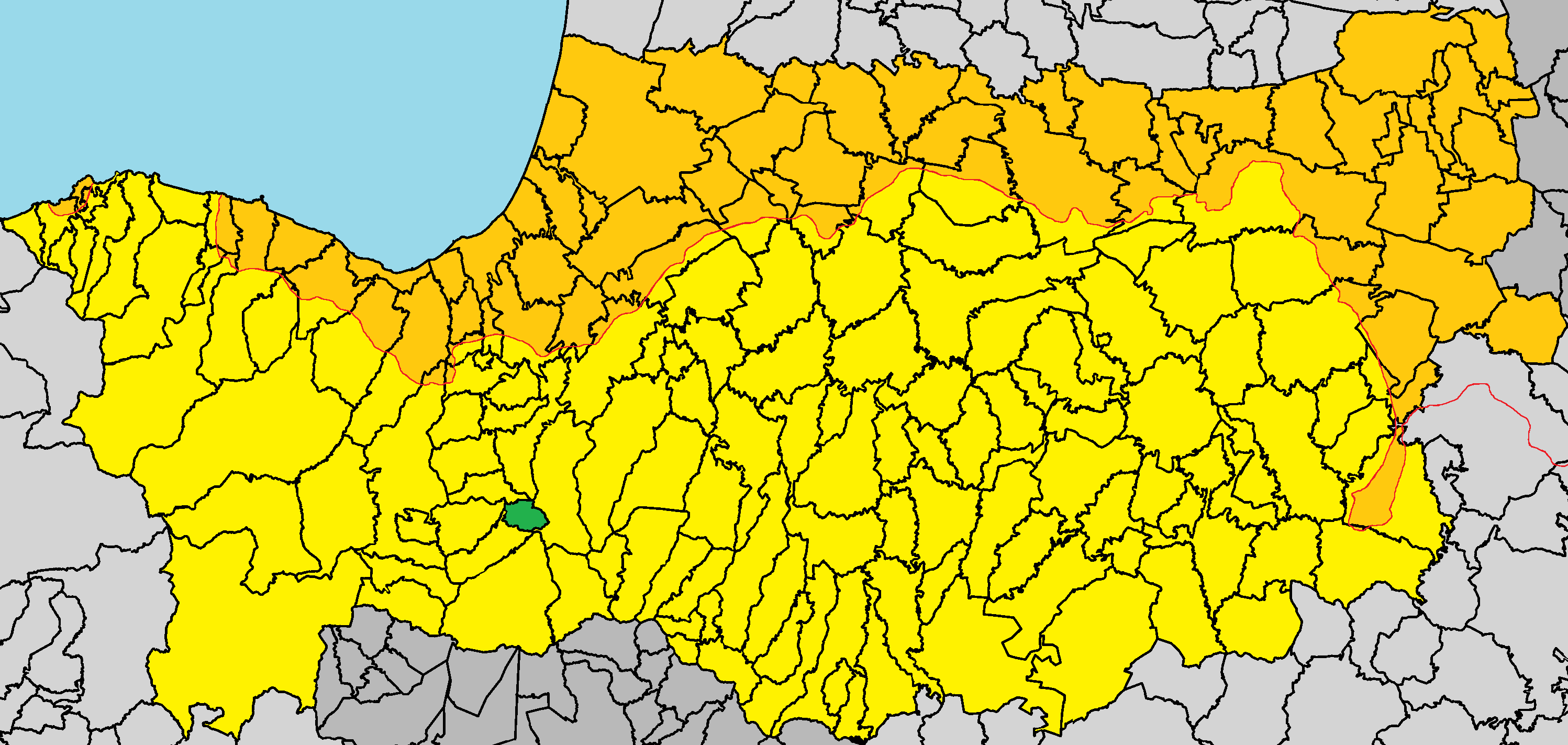 Sinaoros in Nicosia District.